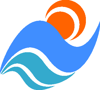 Nishiizu Shizuoka chapter